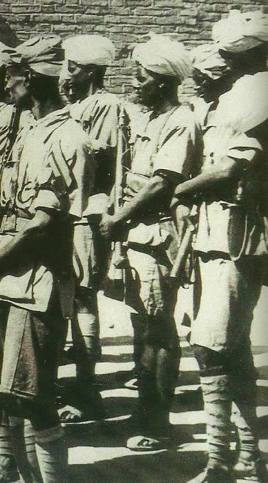 Colonial members of the Polizia Africa Italiana (PAI), wearing their knife called "billao". Image taken from an old 1938 book of "Africa Orientale Italiana". Image is not copyrighted because more than 70 years old. I have done a photo with my digital Kodak, and later enlarged it with my software.